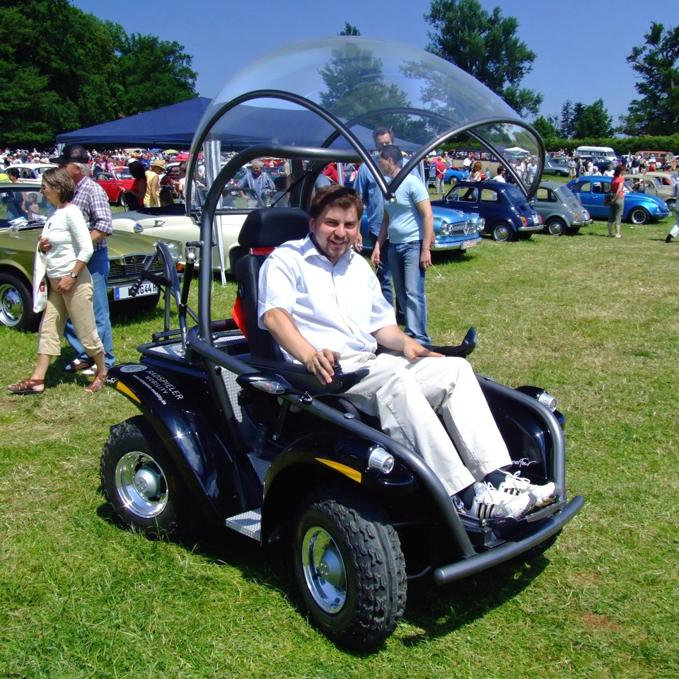 Outdoor-Hybrid-Rollstuhl mit Allradantrieb a German Outdoor-Hybrid-Wheelchair with All-Wheel-Drive from Otto Bock Baujahr: ca. 2006 Quelle: selbst fotografiert, 06/2007 Fotograf: Späth Chr.